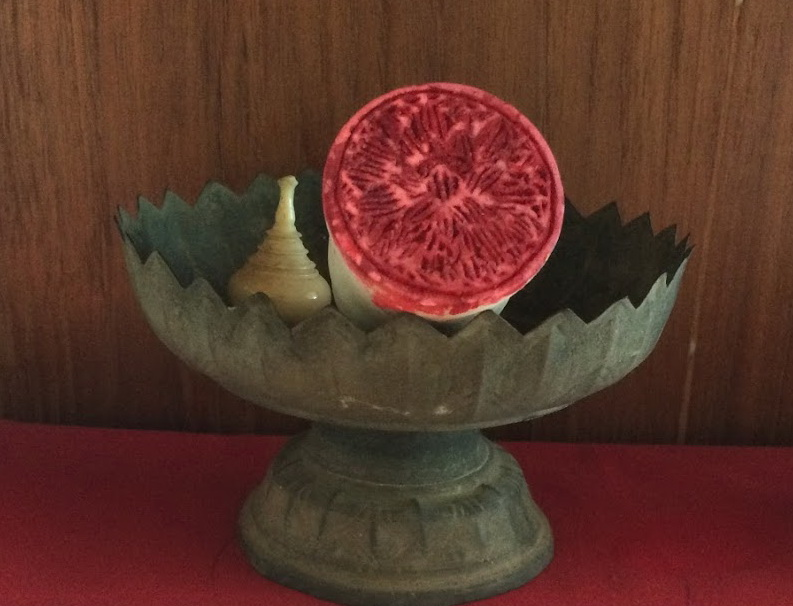 Antique sesame seal of The Last Chao Kana Meaung Fang (Chao Athikan Chan) or Wat Khung Taphao abbot in the past